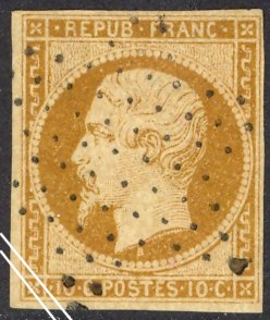 Stamp, France, 1852